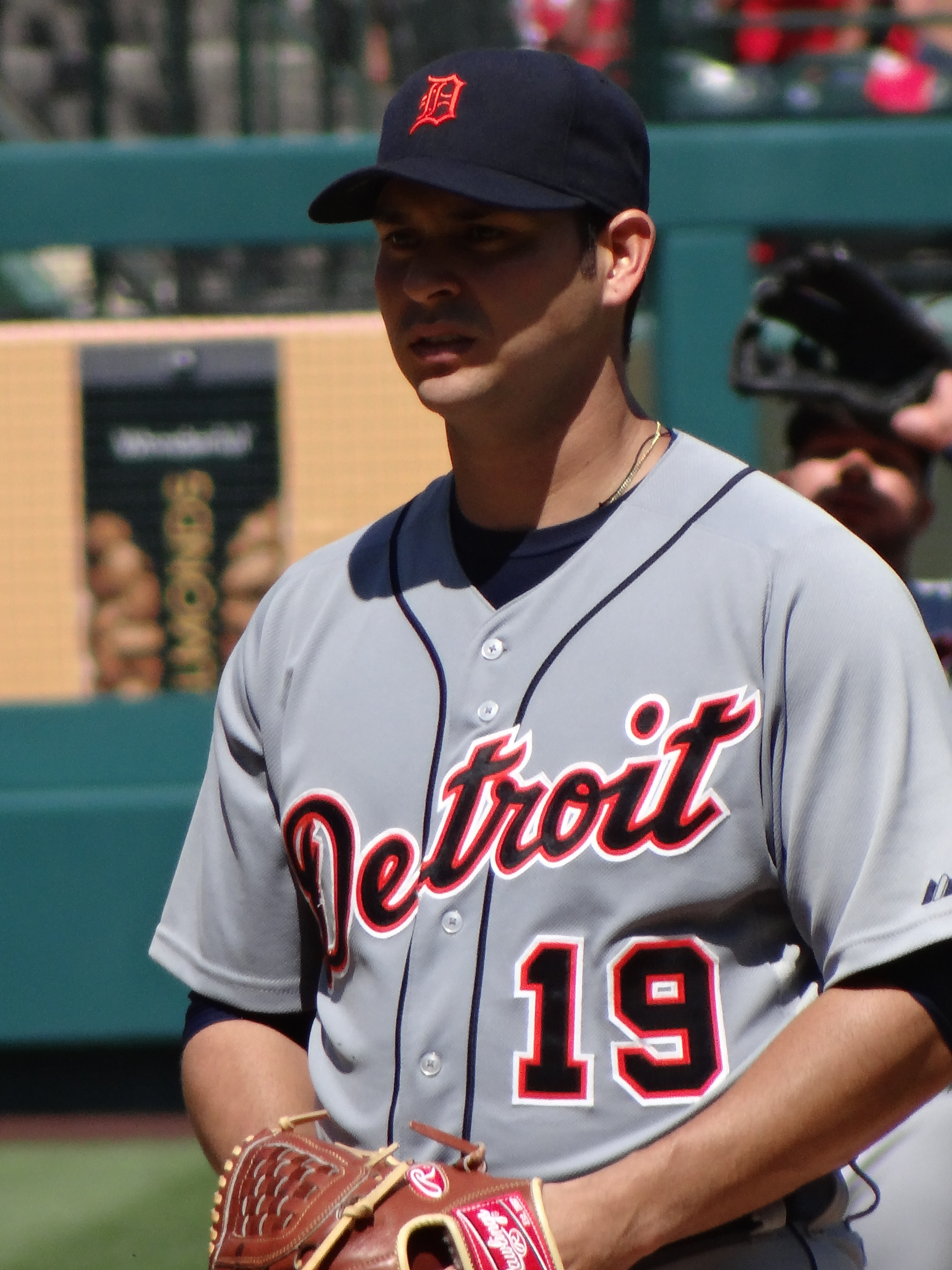 Aníbal Sánchez, pitcher for the Detroit Tigers, at Angels Stadium on September 9, 2012